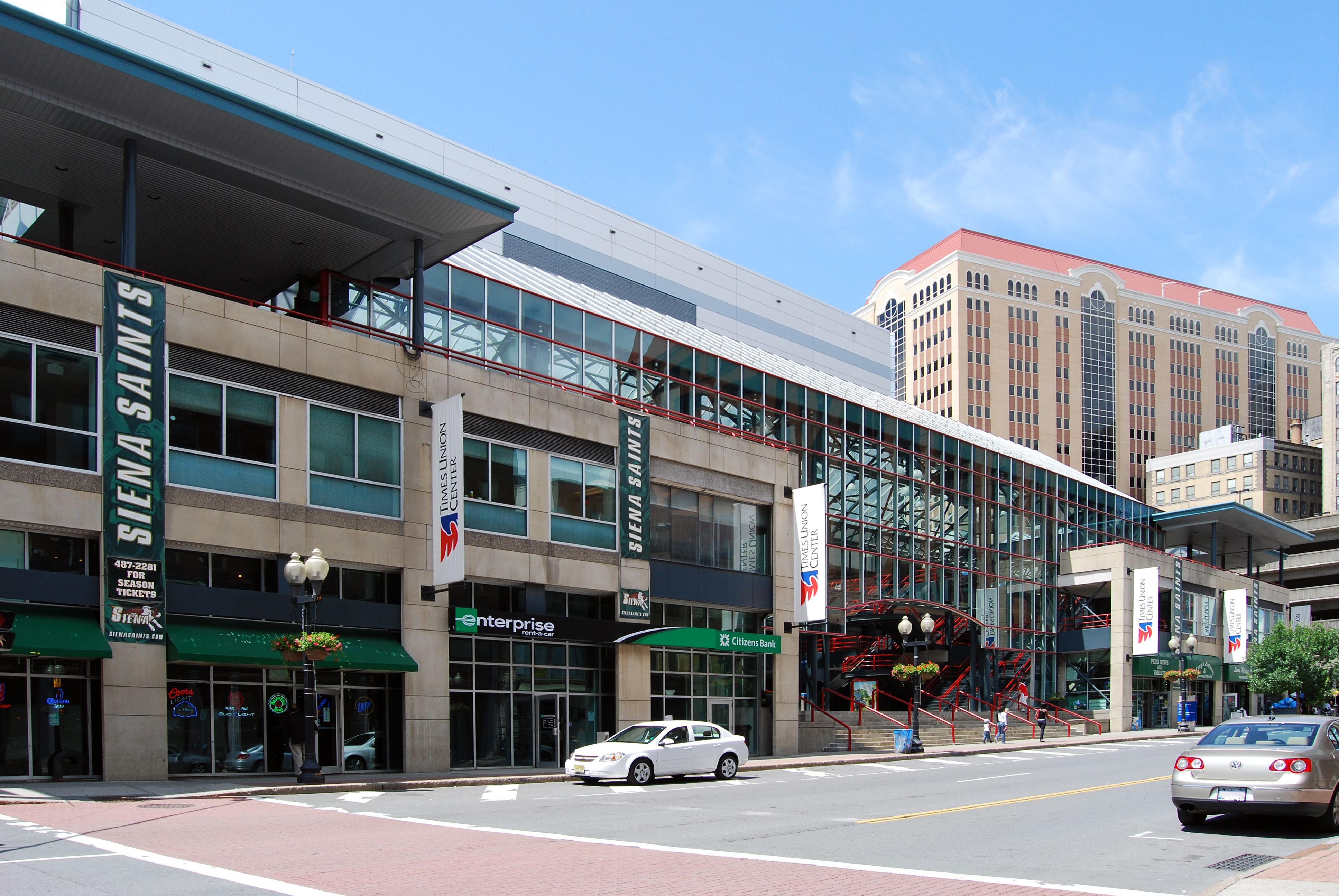 Times Union Center in Albany, New York, United States